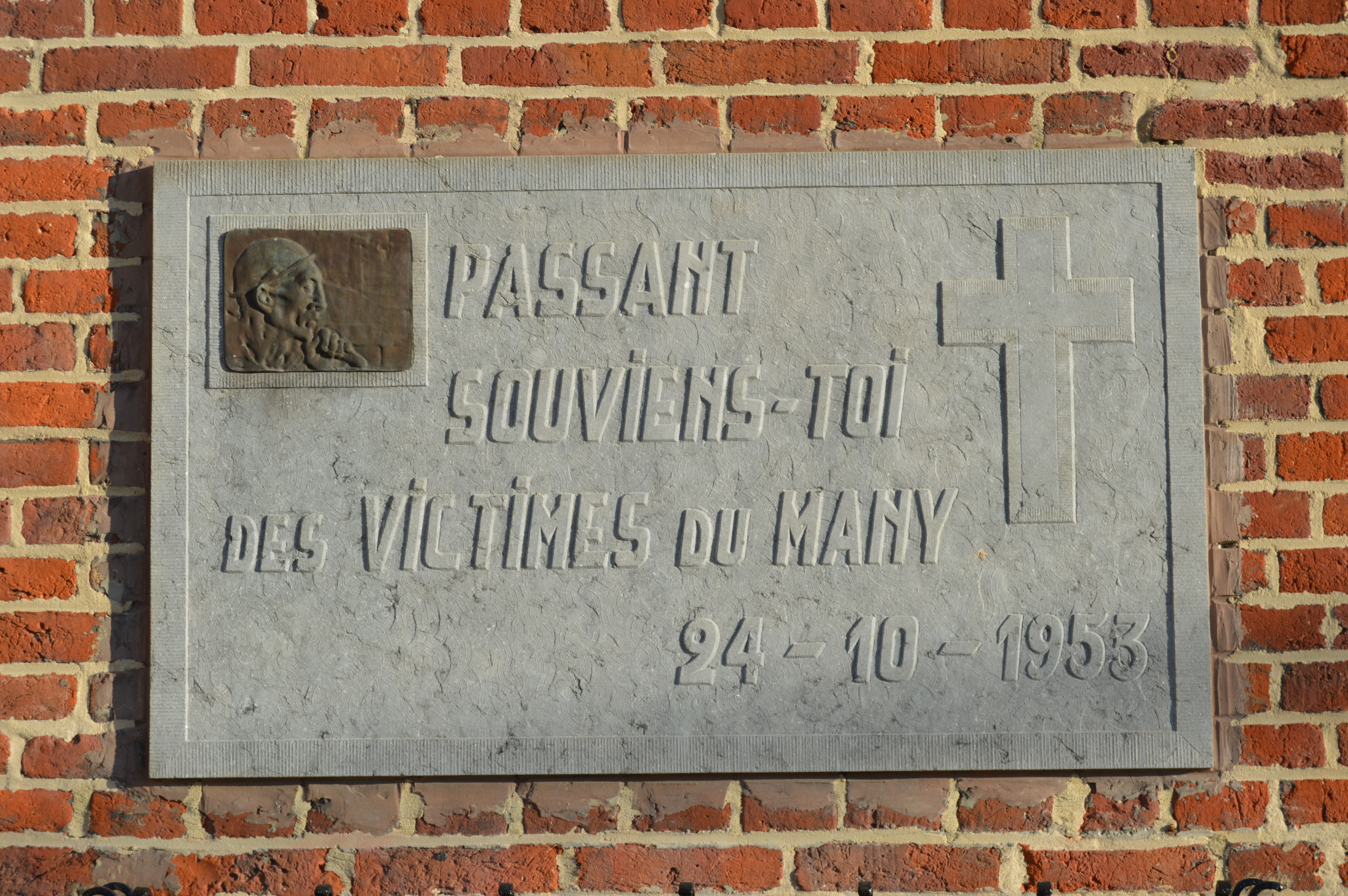 Many coal mine disaster memorial, Saint-Lambert Church, Seraing, Belgium